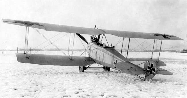 Aviatik C.I (no. 4262/17 - late trainer variant, with a gun ring in rear cab)